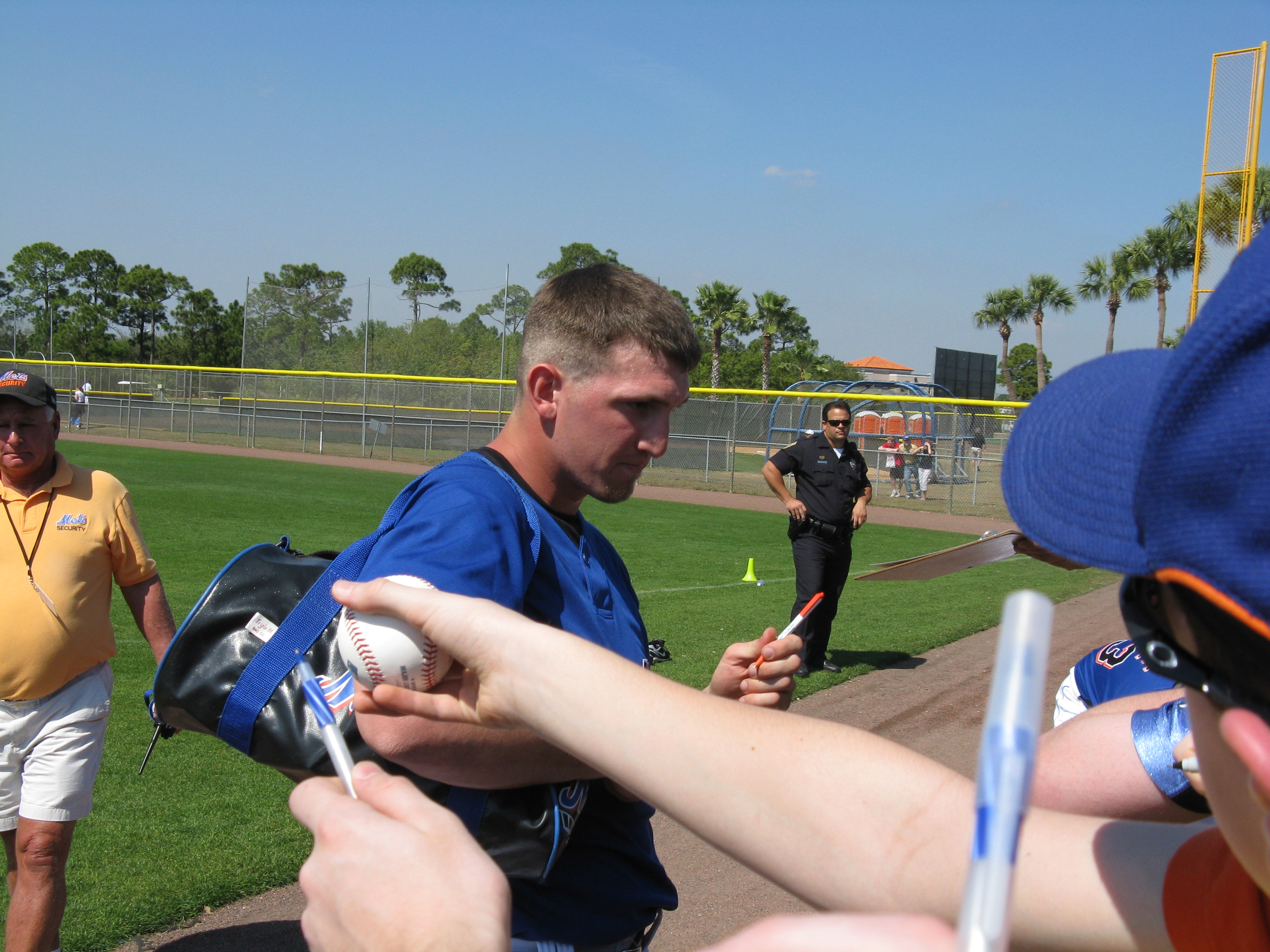 Jon Niese signing an autograph at Mets Spring Training.